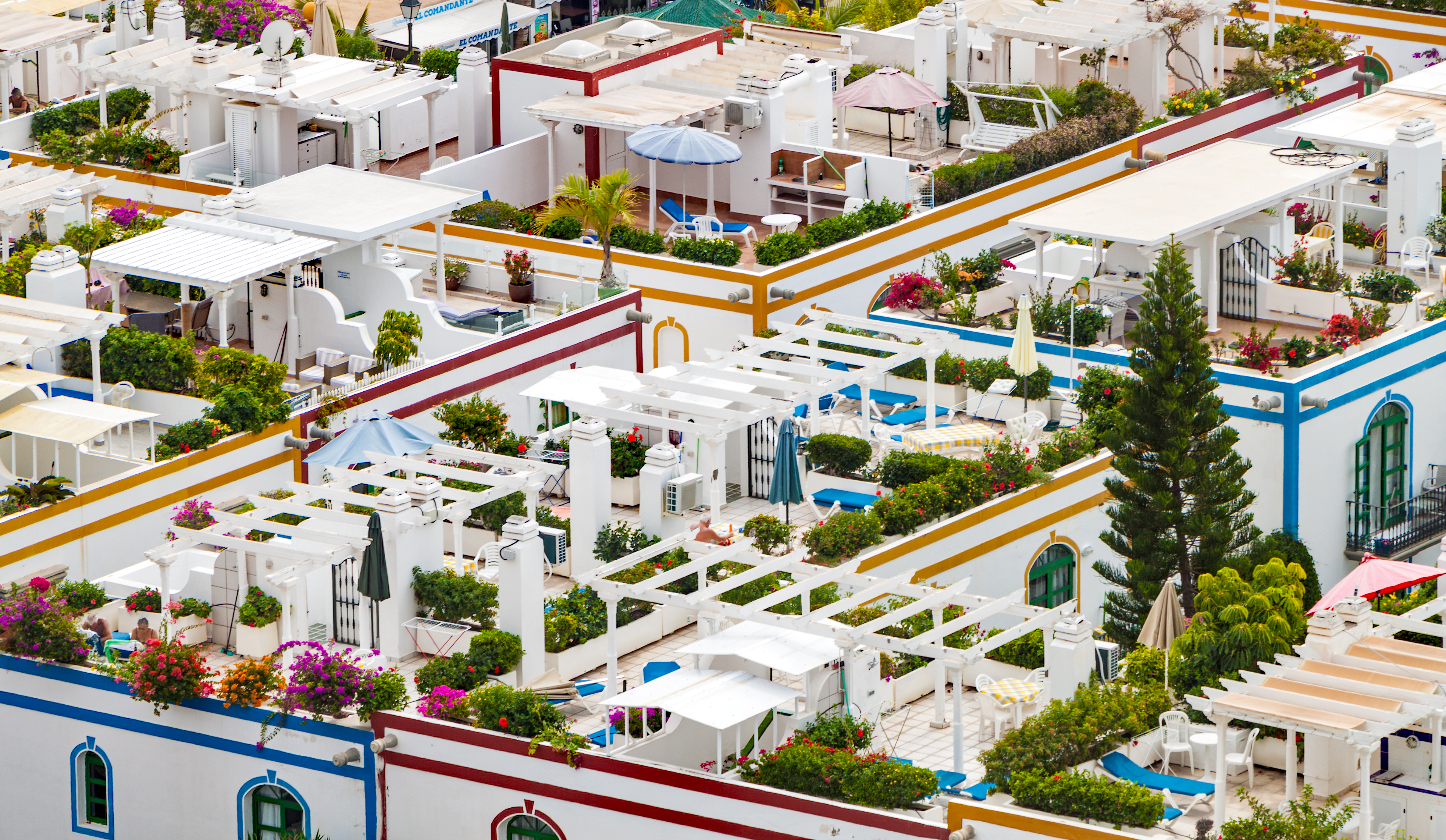 1Houses in Puerto de Mogán, Gran Canaria, Canary Islands, Spain.